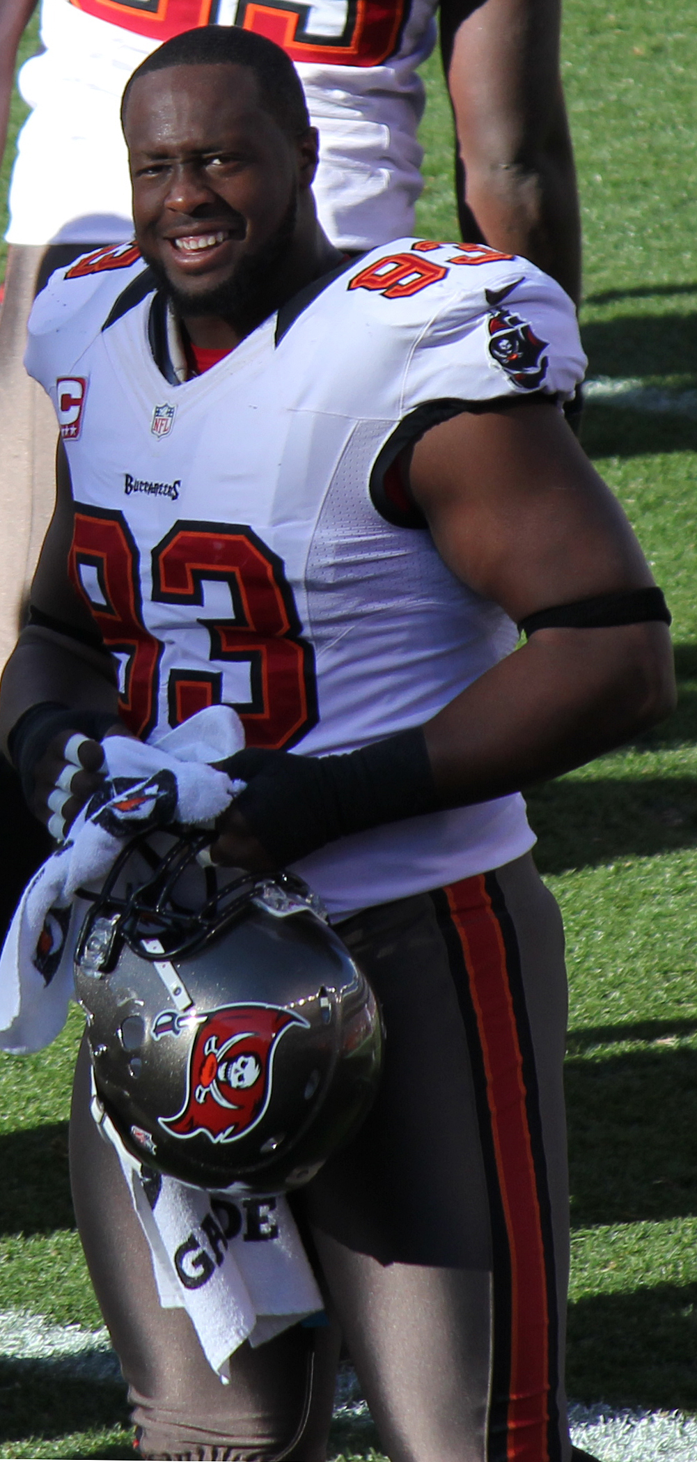 Gerald McCoy, a player on the National Football League.